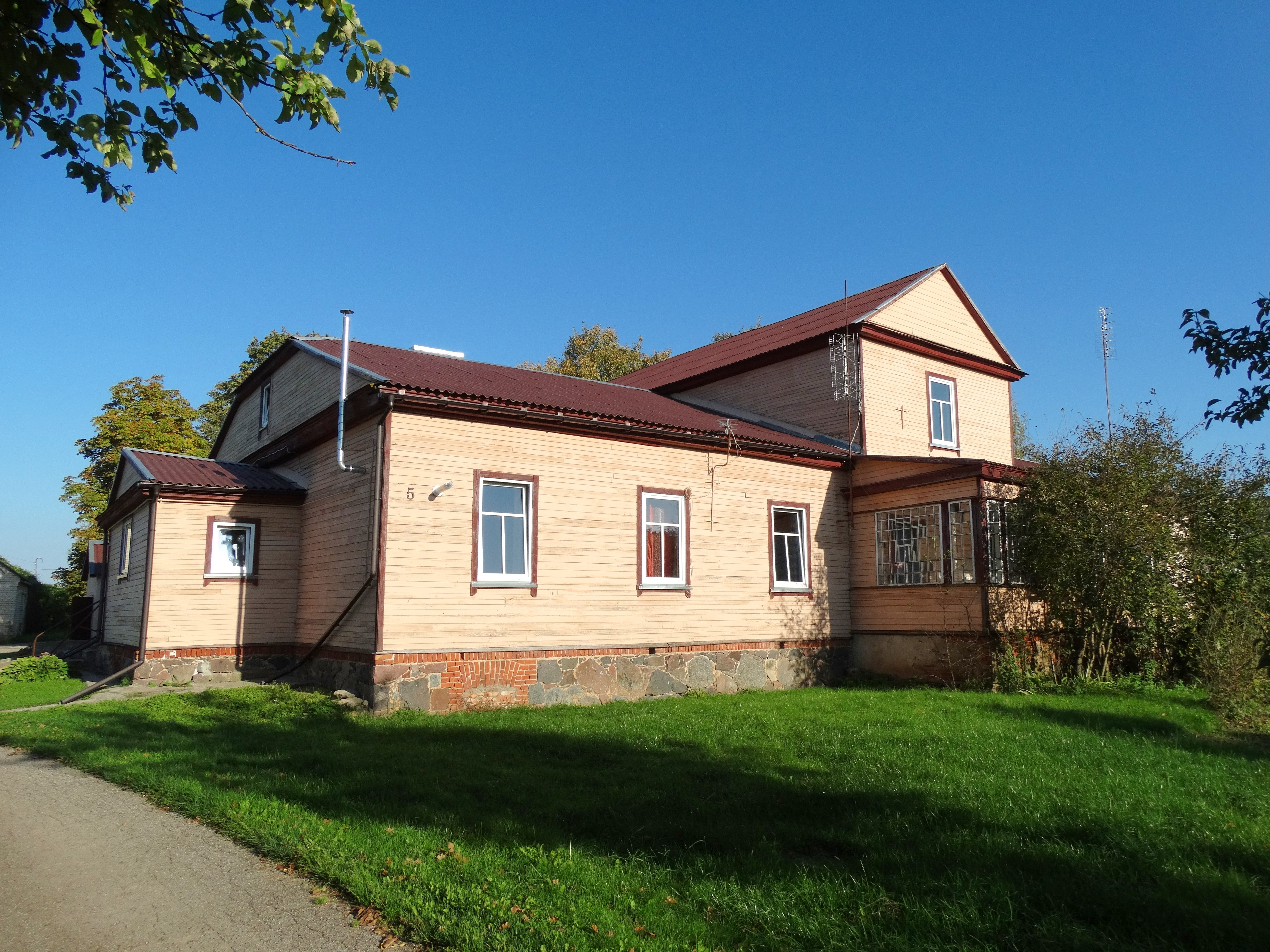 Former manor, Jasiuliškis, Ukmergė district, Lithuania